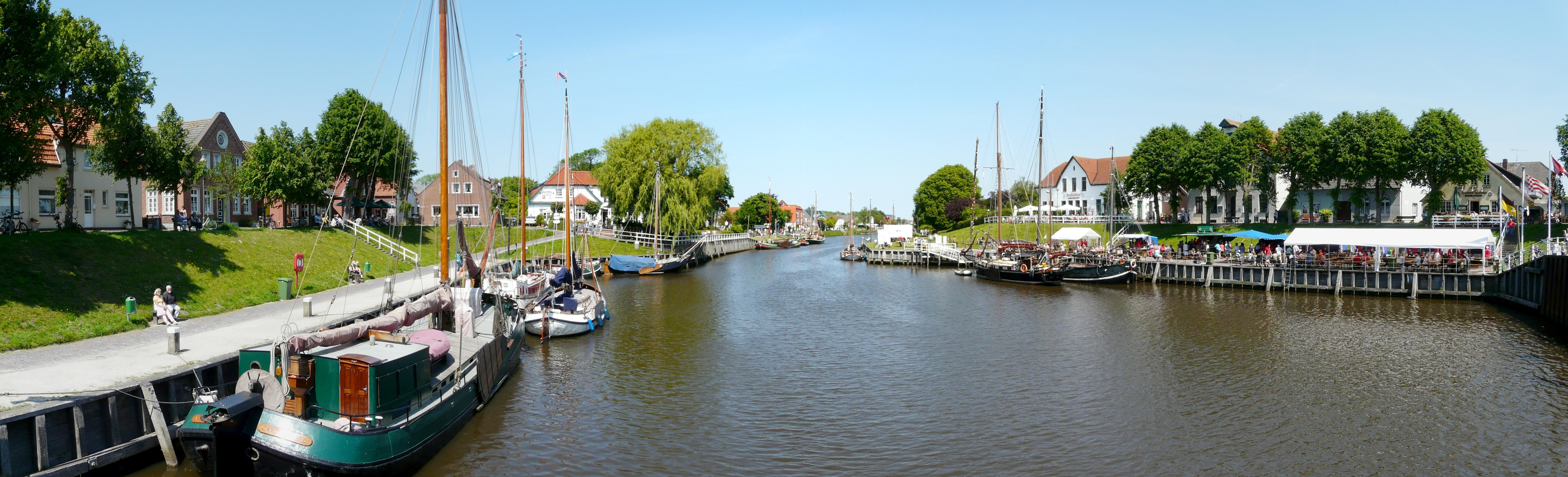 Carolinensiel (Germany) harbour panorama view